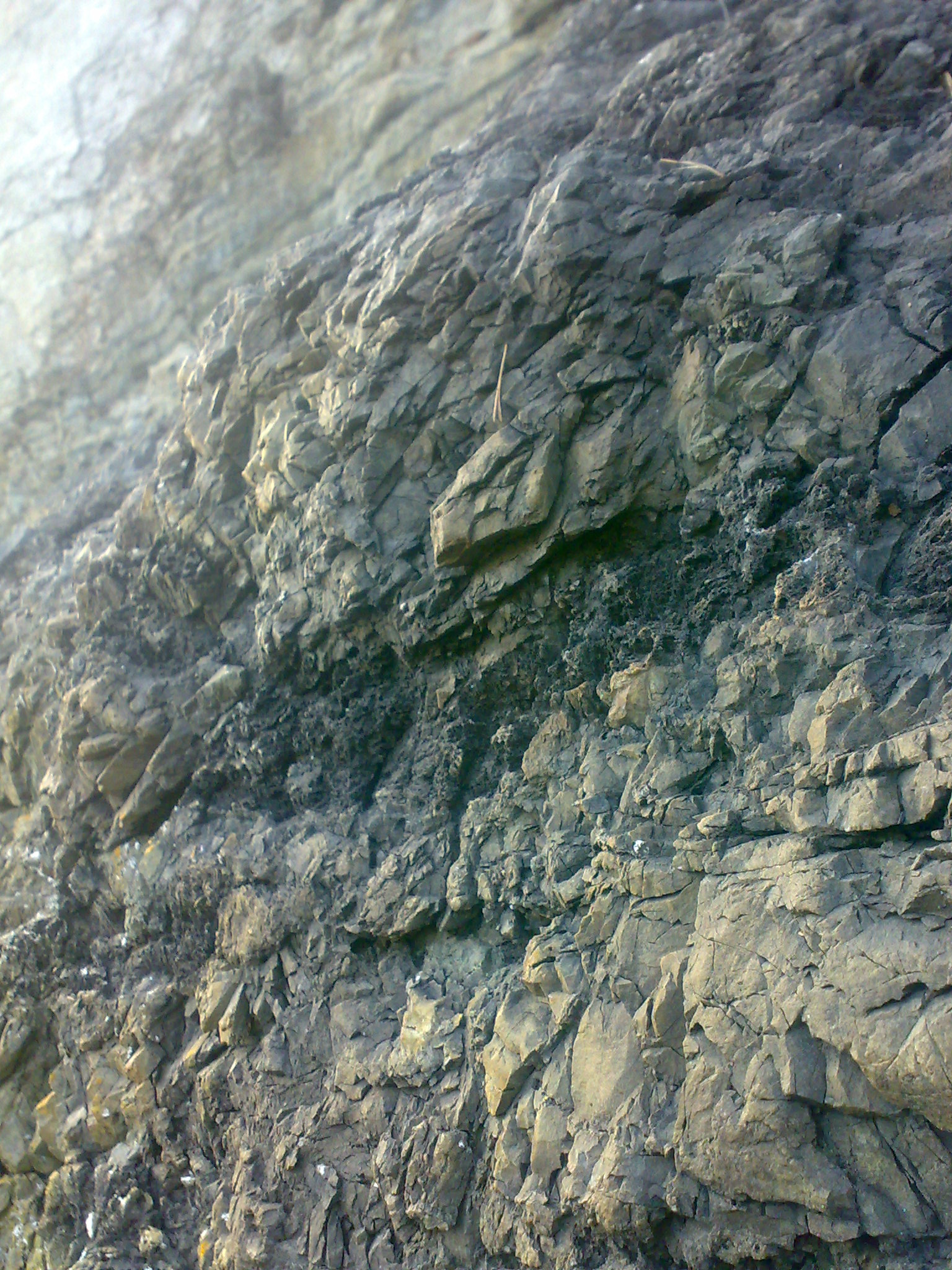 Hornfels and black marmor in Hurum, Norway